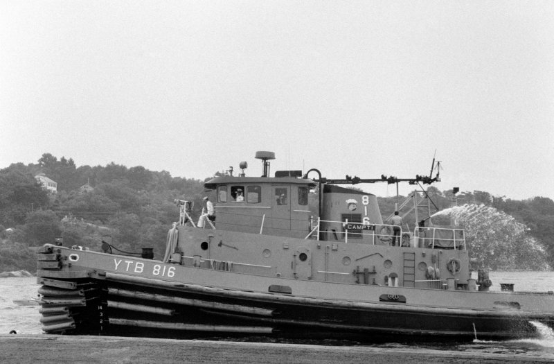 Port broadside view of Campti (YTB 816) underway. Campti is assisting in the maneuvering of ex-Nautilus (SSN-571) into a berth at pier 33. Naval Submarine Base, New London, 6 July 1985. The submarine will be permanently berthed at the US Navy Submarine Force Museum in Groton, CT. as a memorial. DVIC photo # DNSN8509417 by PH3 Joan Zopf USN.